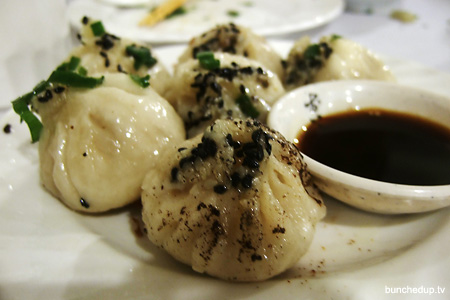 Little Shanghai Restaurant's Panfried Dumplings - a must try!